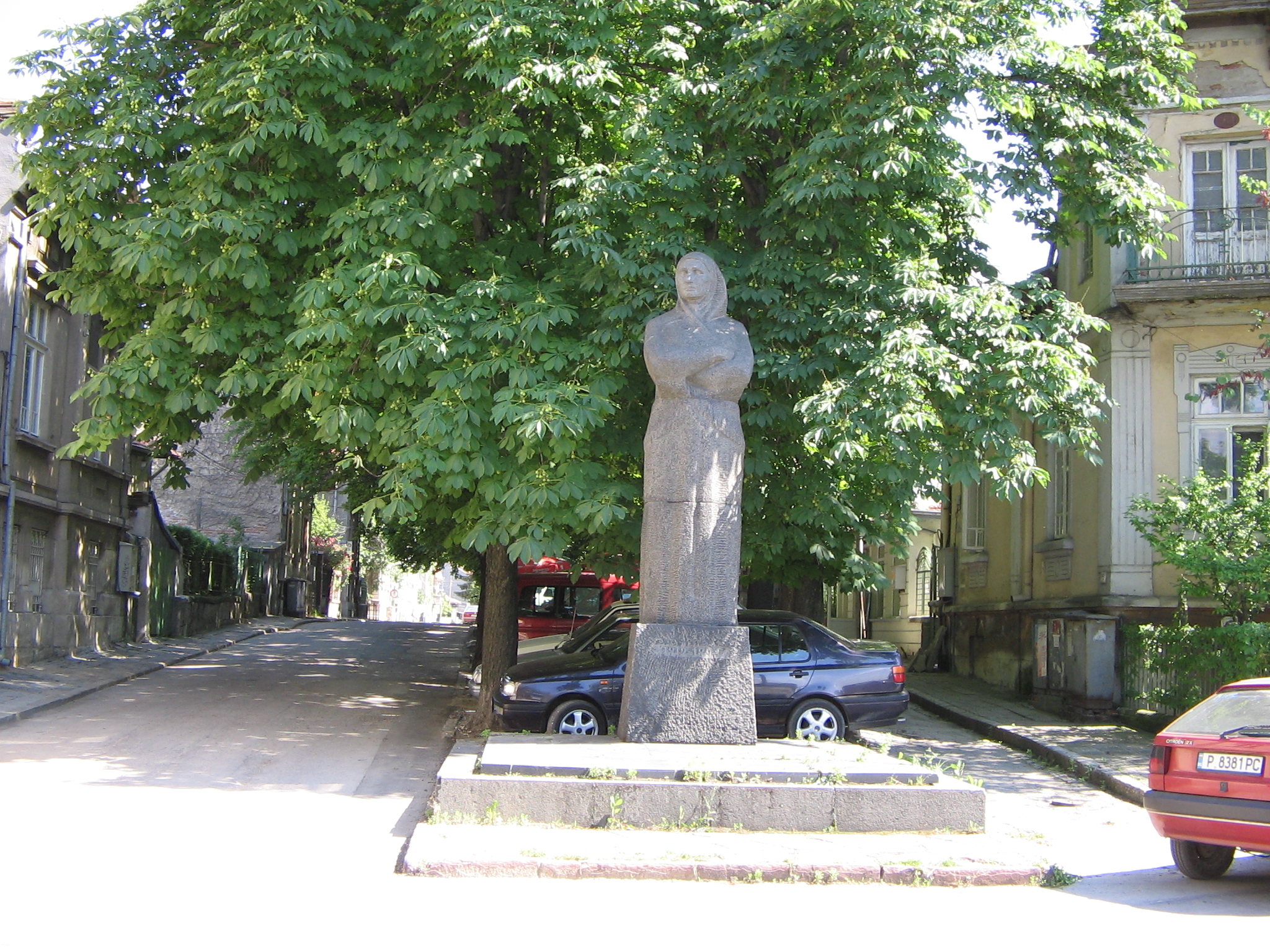 Monument of Tonka Obretenova in Rousse, Bulgaria